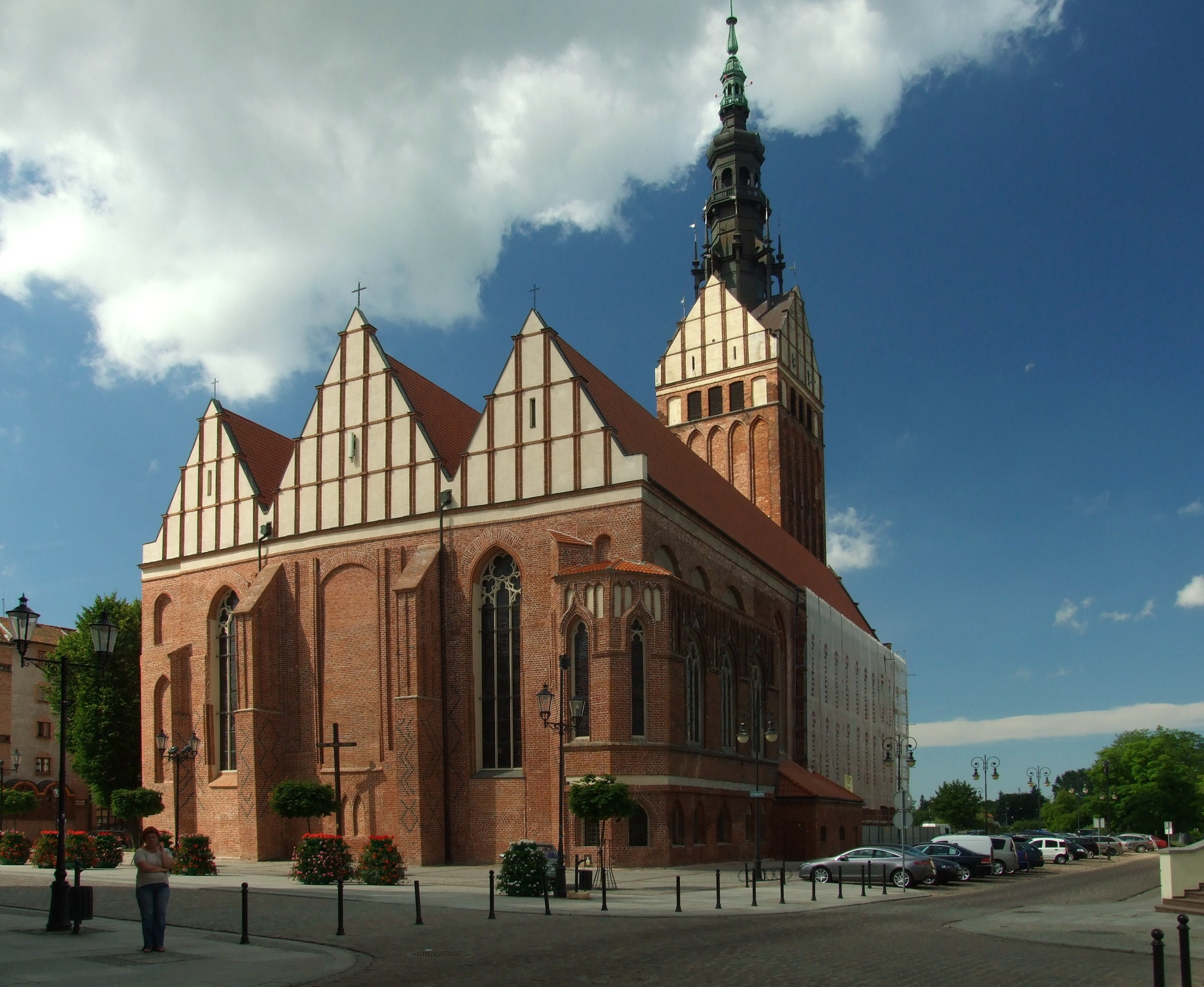 St. Nicolaus Church in Elbląg seen from eastern side